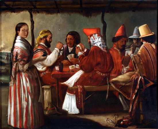 Argentine soldiers who served under Juan Manuel de Rosas playing cards. They wear the typical red clothes from the Rosas' regime.